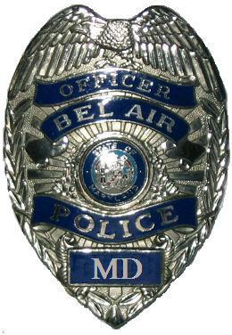 badge Bel Air Police Department